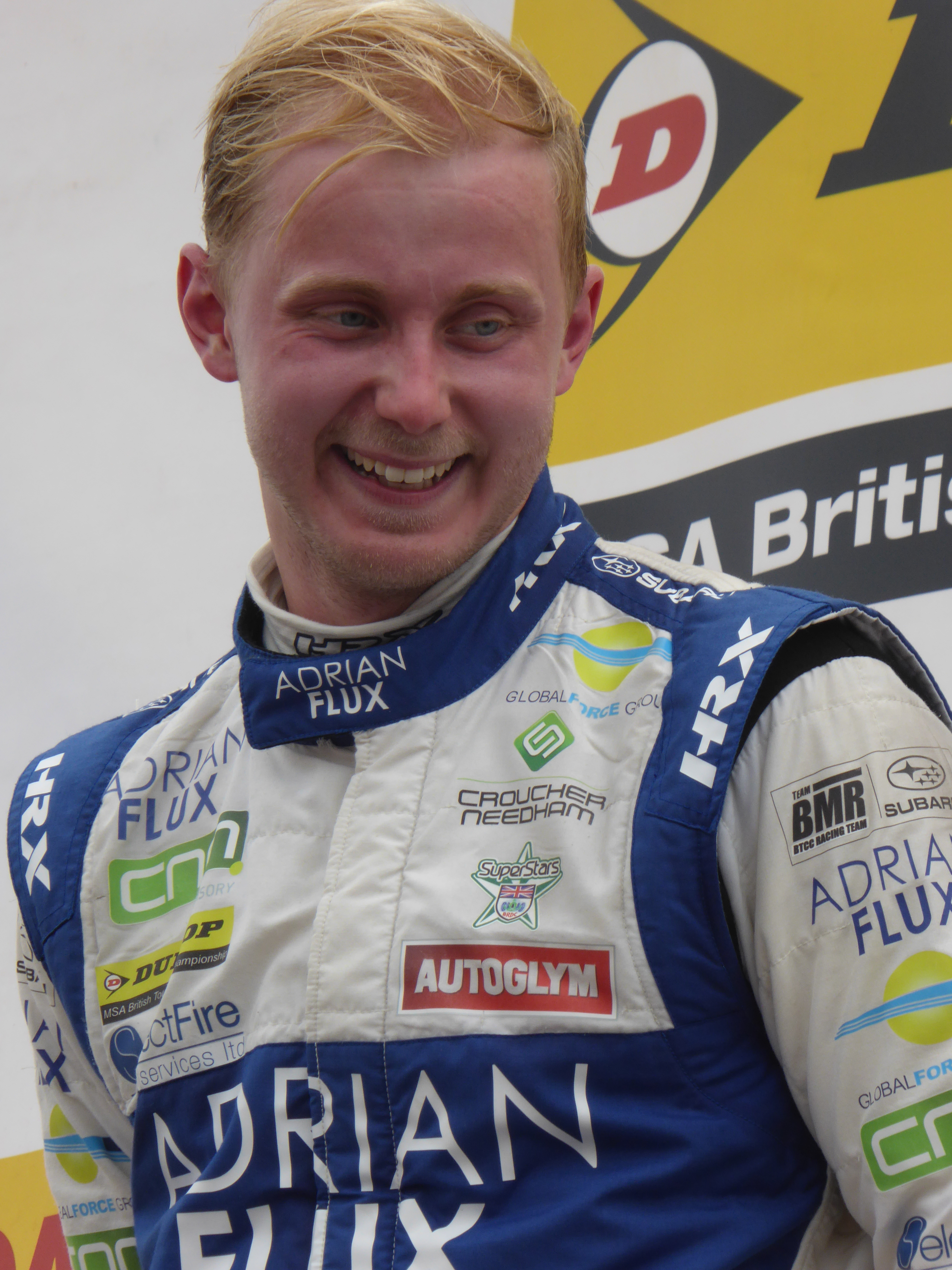 Ashley Sutton (Adrian Flux Subaru Racing), who won Race 2, at the Knockhill round of the 2017 British Touring Car Championship.